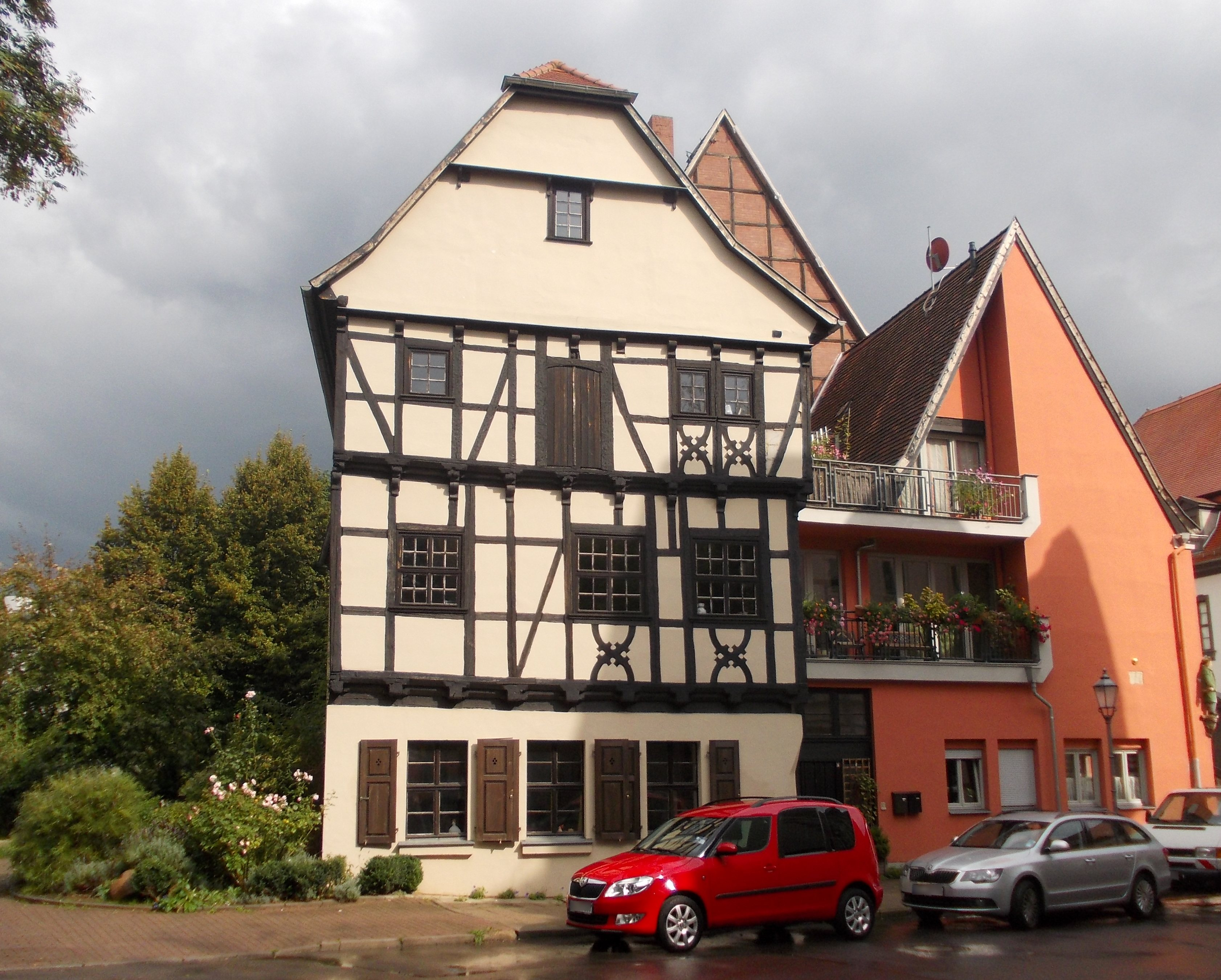 No. 26, Alter Markt in Halle (Saale), Saxony-Anhalt